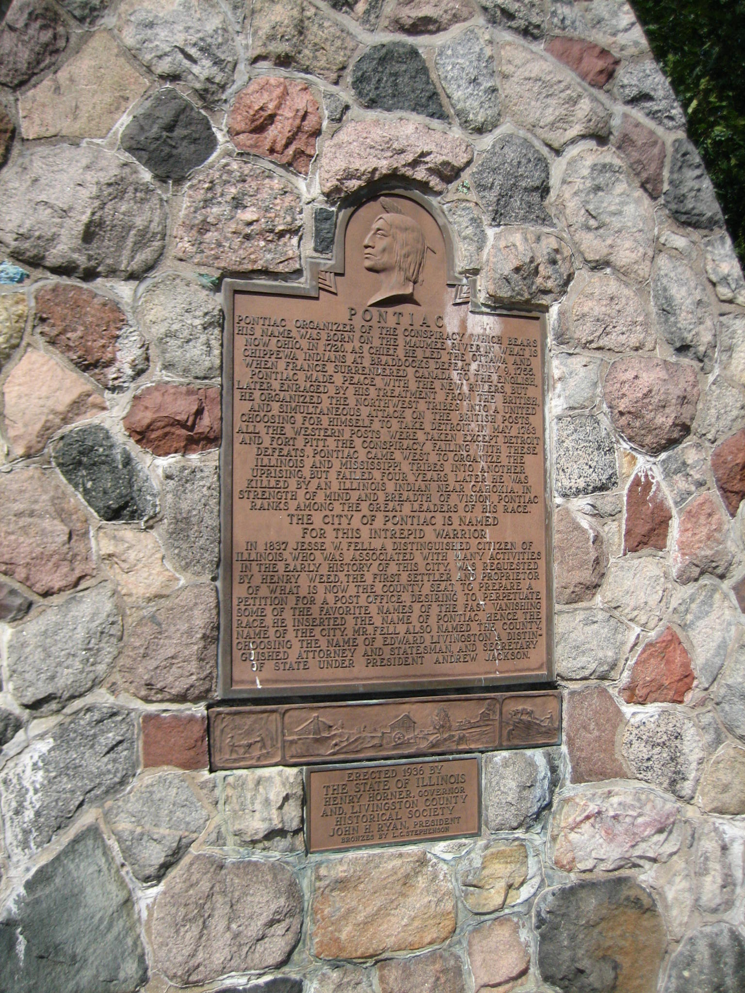 Livingston County Courthouse, Pontiac, Illinois, USA. U.S. National Register of Historic Places. Livingston County Courthouse, Pontiac, Illinois, USA. U.S. National Register of Historic Places. Chief Pontiac memorial